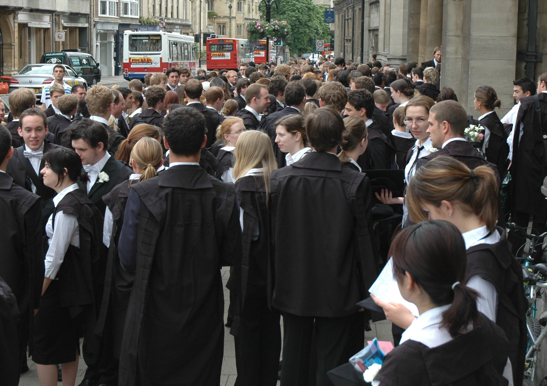 Students in academic dress outside the Exam Schools, Oxford.